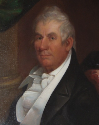 A portrait of Kentucky legislator Green Clay, who also served in the American Revolutionary War and the War of 1812. The original oil painting hangs in Cassius M. Clay's White Hall estate, now part of White Hall State Historic Site. According to the curator at White Hall State Historic Site, the portrait was donated to the site by a Clay family descendent between 1968 and 1971.